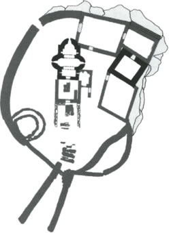 Plan of Moračnik Monastery